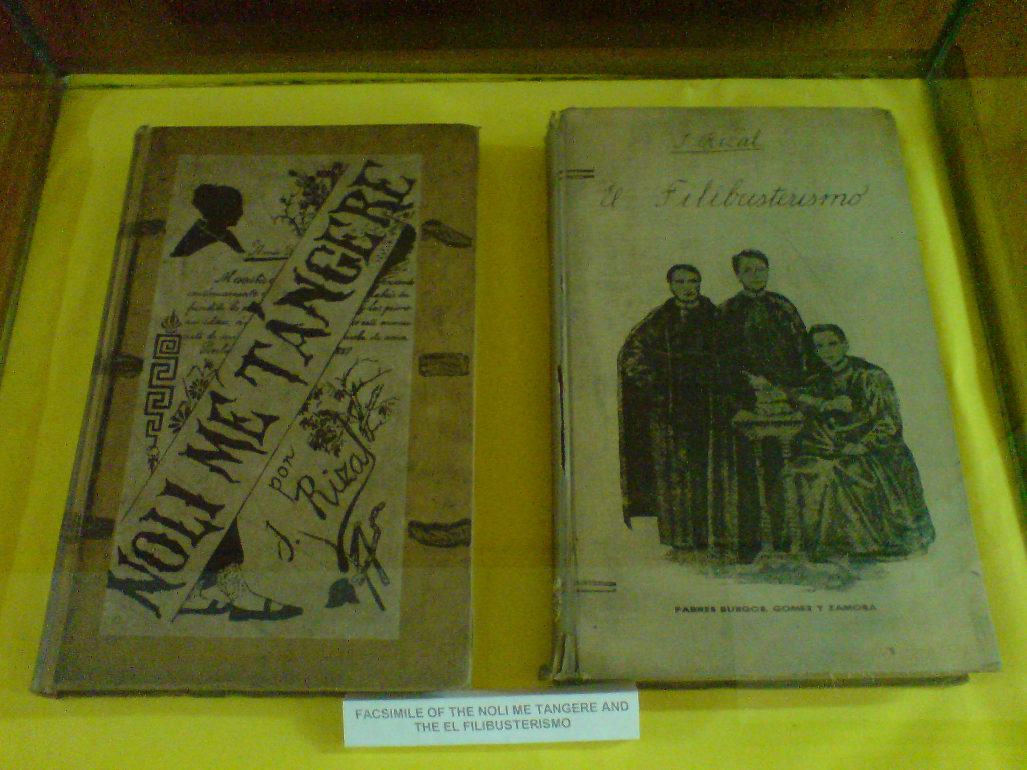 Facsimile copies of Noli Me Tangere and El filibusterismo displayed at the Filipiniana Reading Room of the National Library of the Philippines. Tagalog: Mga kopyang paksimile ng Noli Me Tangere at El filibusterismo na nakalantad sa Silid-Aklatan ng Sangay ng Filipiniana sa Pambansang Aklatan ng Pilipinas.